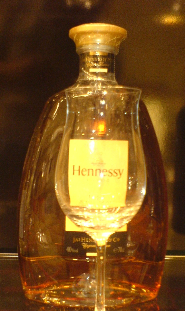 Hennessy cognac bottle with drinking glass